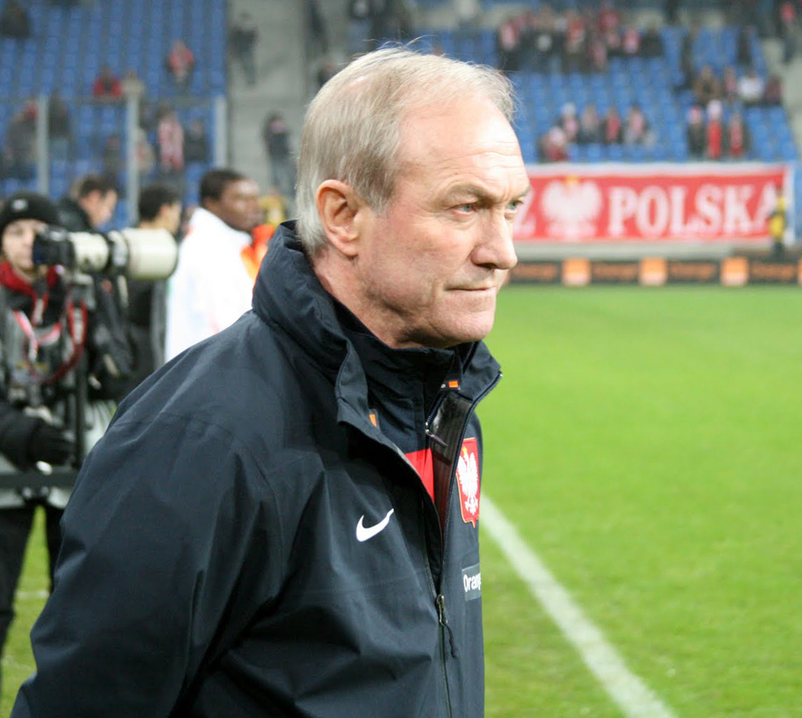 Franciszek Smuda